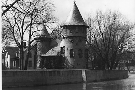 Curwood Castle in Michigan — 1930.